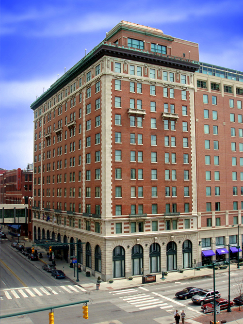 Indianapolis downtown